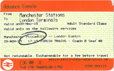 A National Rail ticket printed in the 2014 format. The ticket type, Advance Single, is on the upper orange strip. The origin (Manchester Piccadilly and London Euston are below this. The ticket is for one adult in Standard Class. The price is printed on the lower orange strip, followed by "X" which indicates that the ticket was purchased by credit or debit card. Details of the reserved train (a Virgin Trains service) are included. The ticket was printed on a Scheidt & Bachmann Ticket XPress machine at Lewisham station at the time and date printed at the lower right corner, and has been marked by Manchester Piccadilly barrier staff.